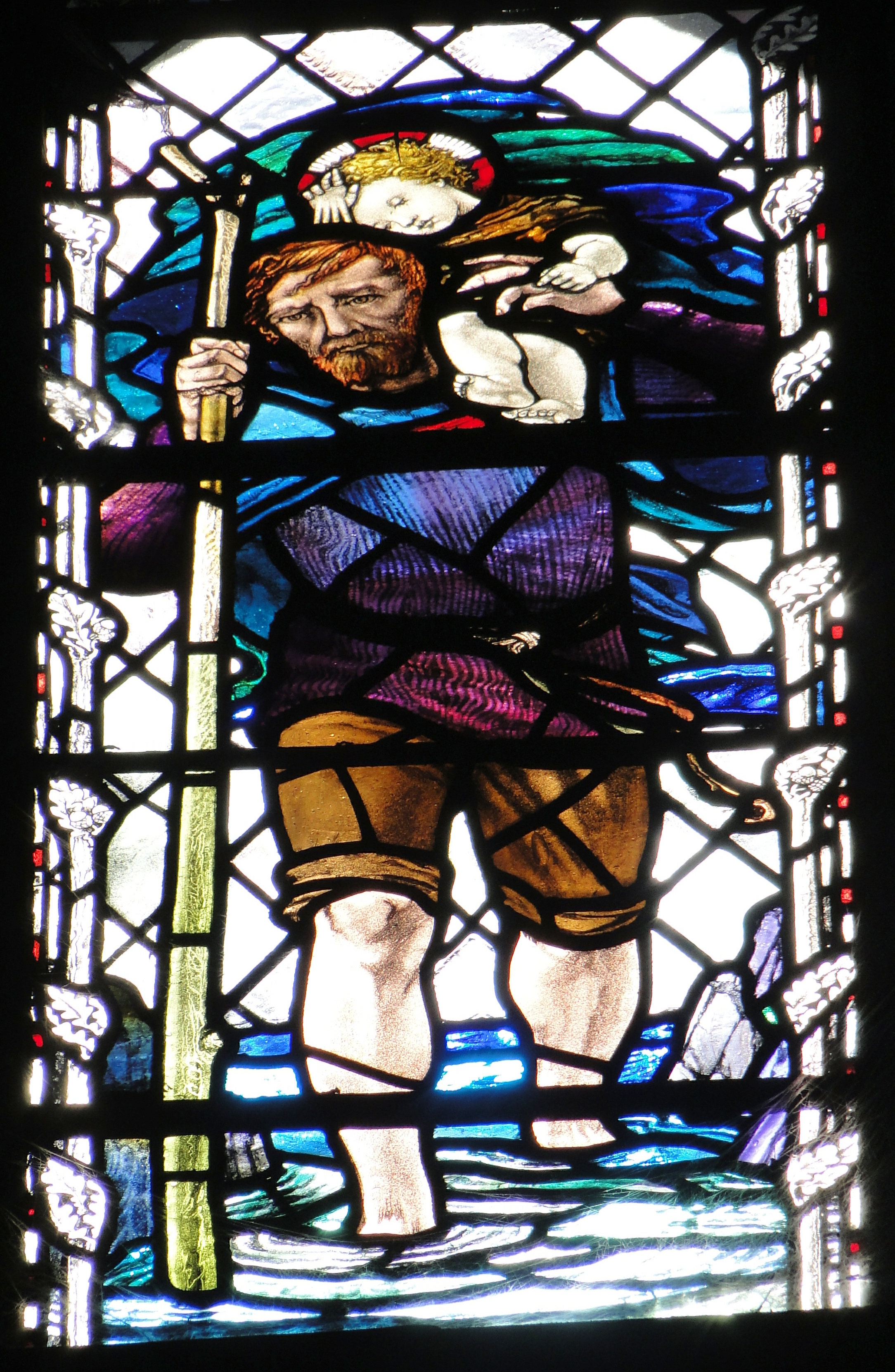 Window in the Lady Chapel Gloucester Cathedral by Veronica Whall